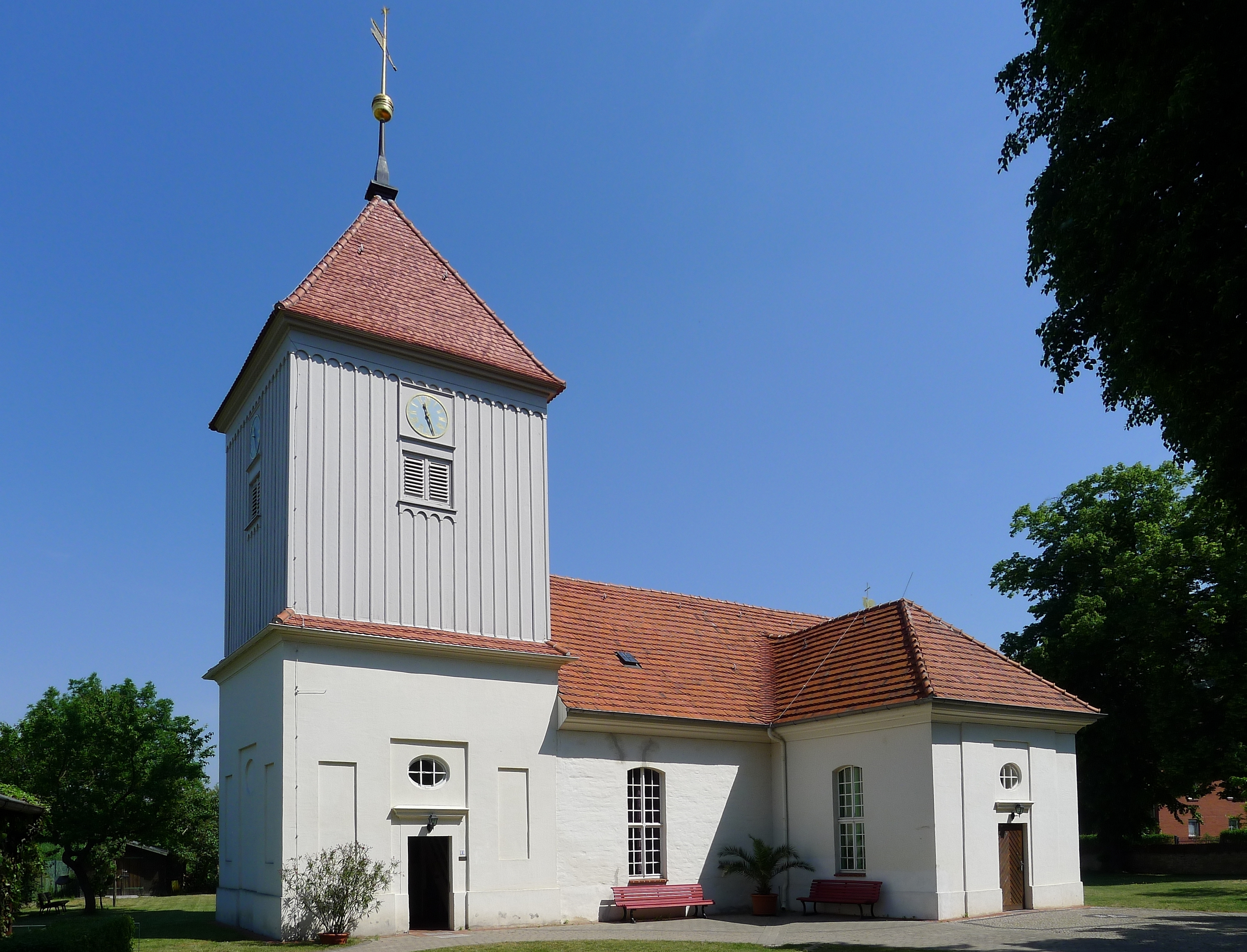 Dorfkirche Alt-Staaken